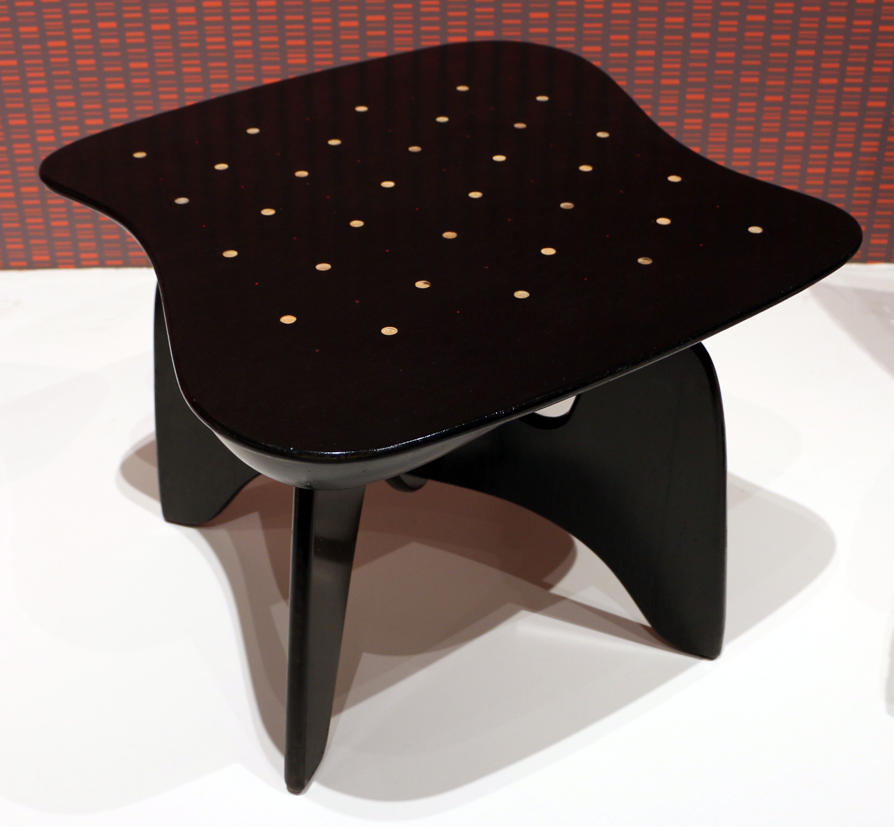 Furniture in the Milwaukee Art Museum